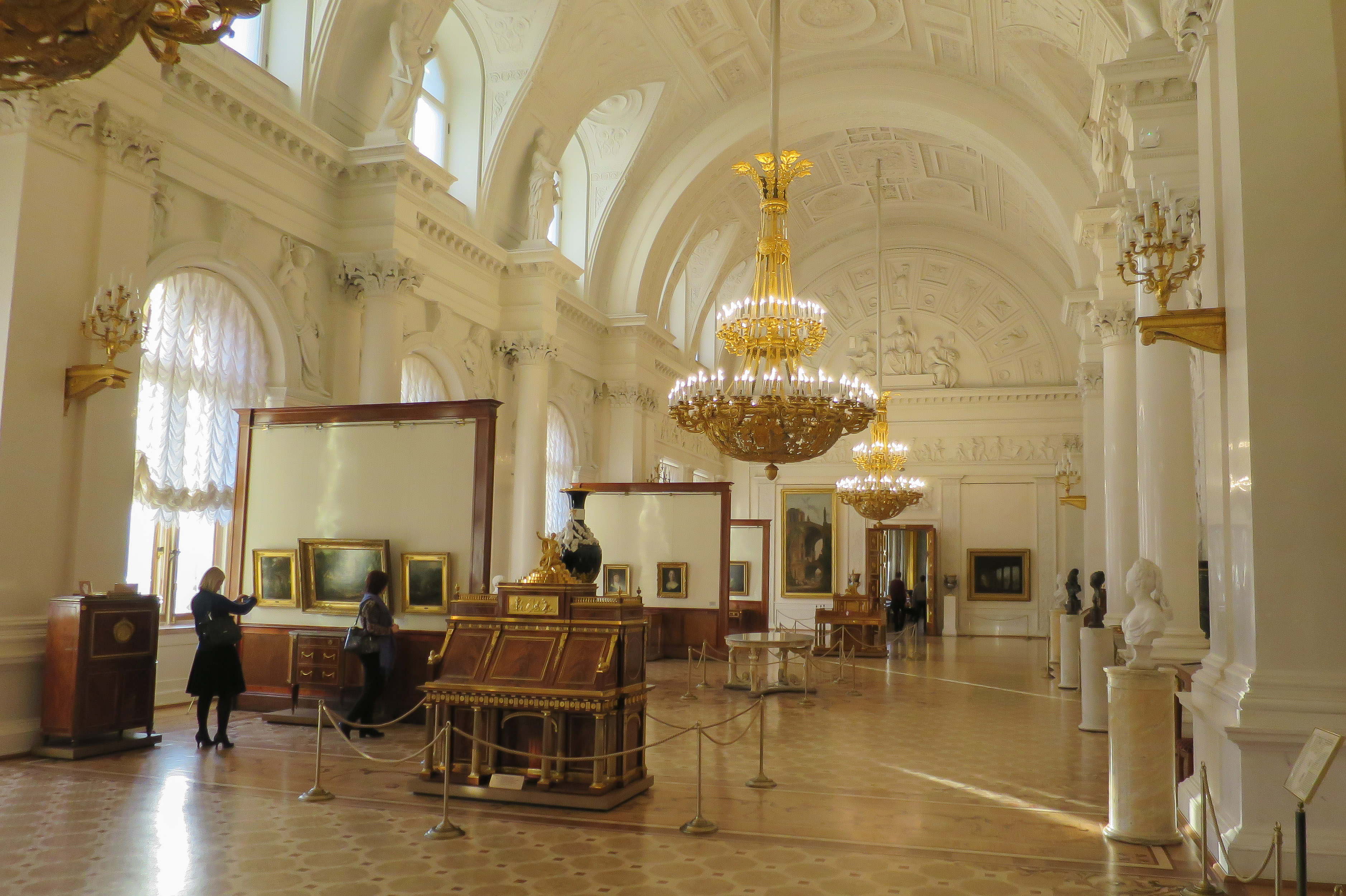 Hermitage Museum - Winter Palace - 2nd Level - Room 289 - The White Hall (Saint-Pétersbourg, Russie)